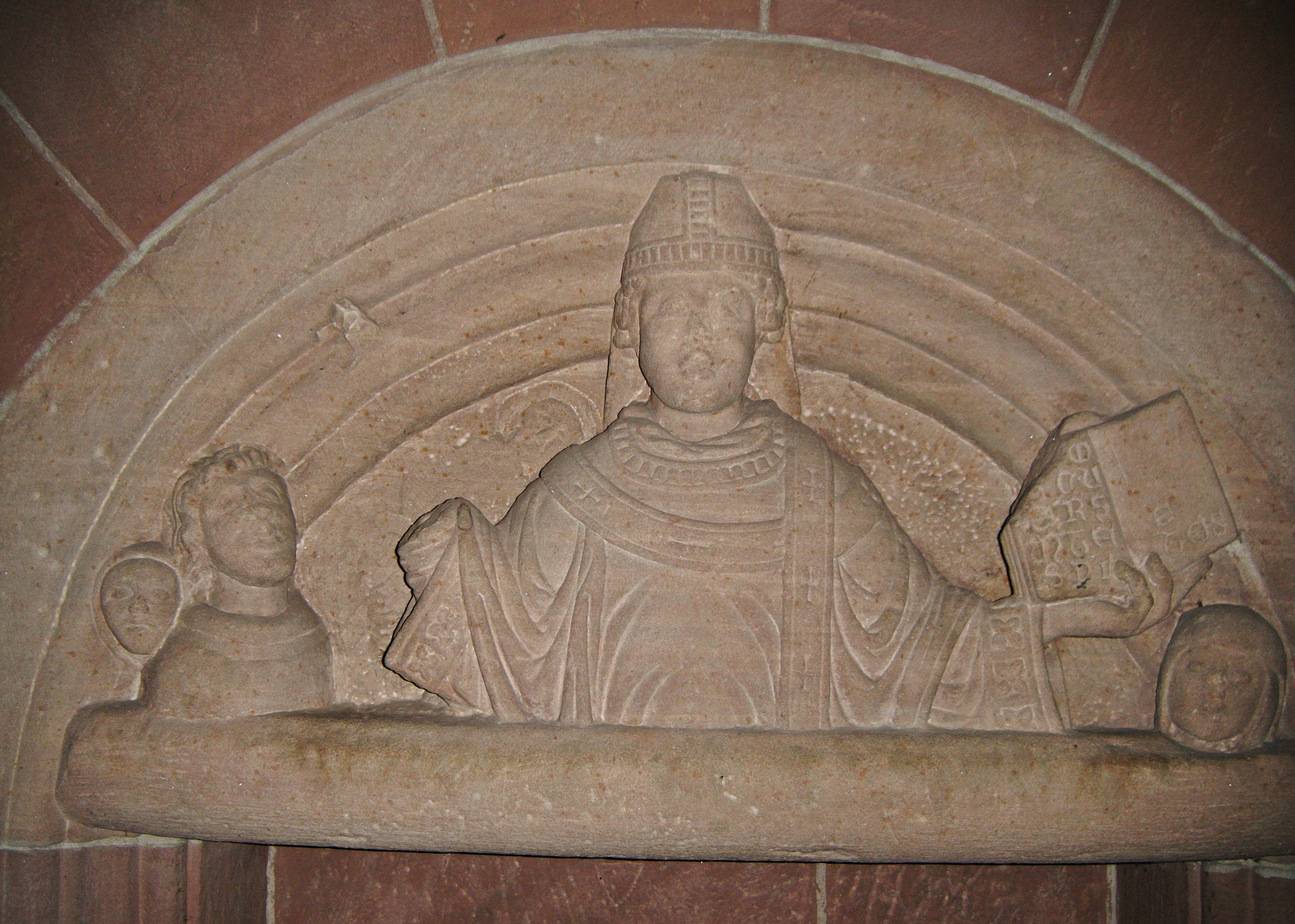 Worms, Dom, romanisches Nikolaustympanon